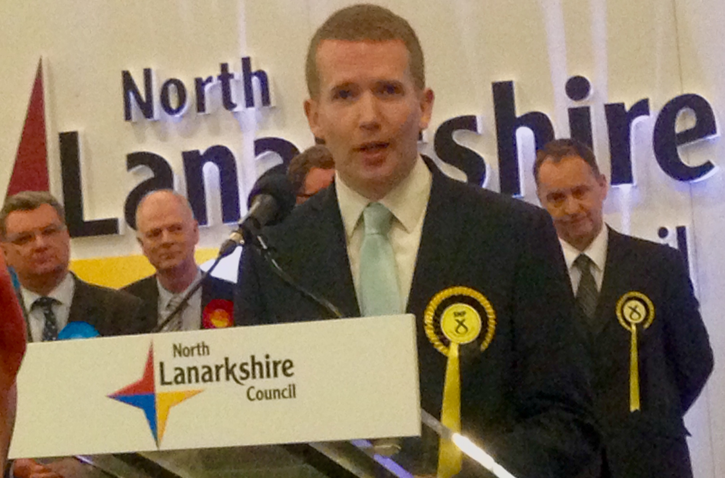 Stuart McDonald makes his declaration speech at the North Lanarkshire 2015 UK General Election count, at the Ravenscraig Regional Sports Facility, after being elected as the Scottish National Party (SNP) Member of the UK Parliament for Cumbernauld, Kilsyth and Kirkintilloch East.